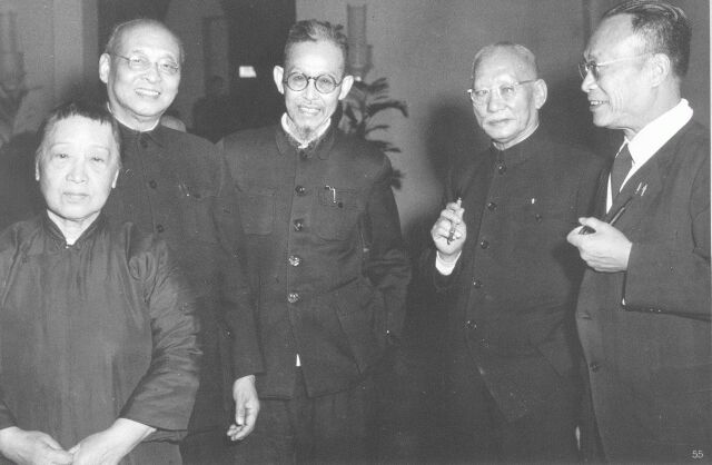 (from left to right) Kang Tung-pih, Feng Shaoshan, Zhang Zhijiang, Chen Mingshu